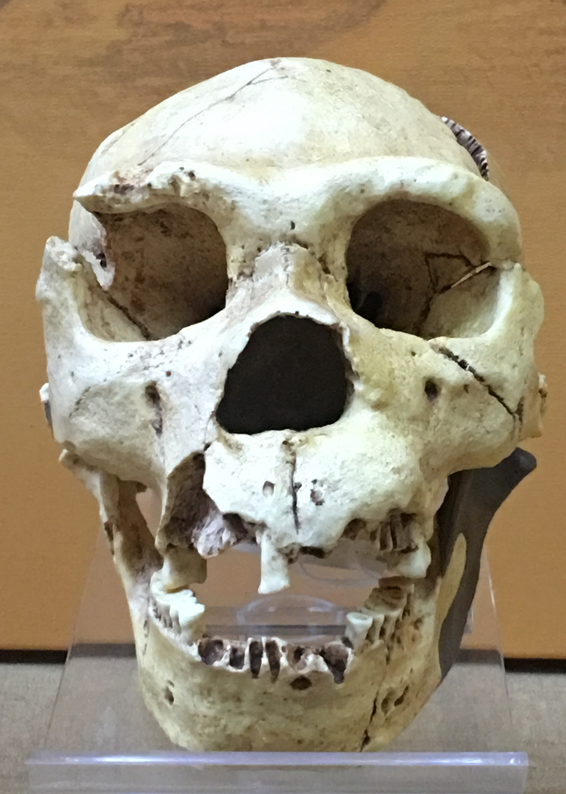 Hominid fossil reconstruction in the Beijing Museum of Natural History - China, July 2017.